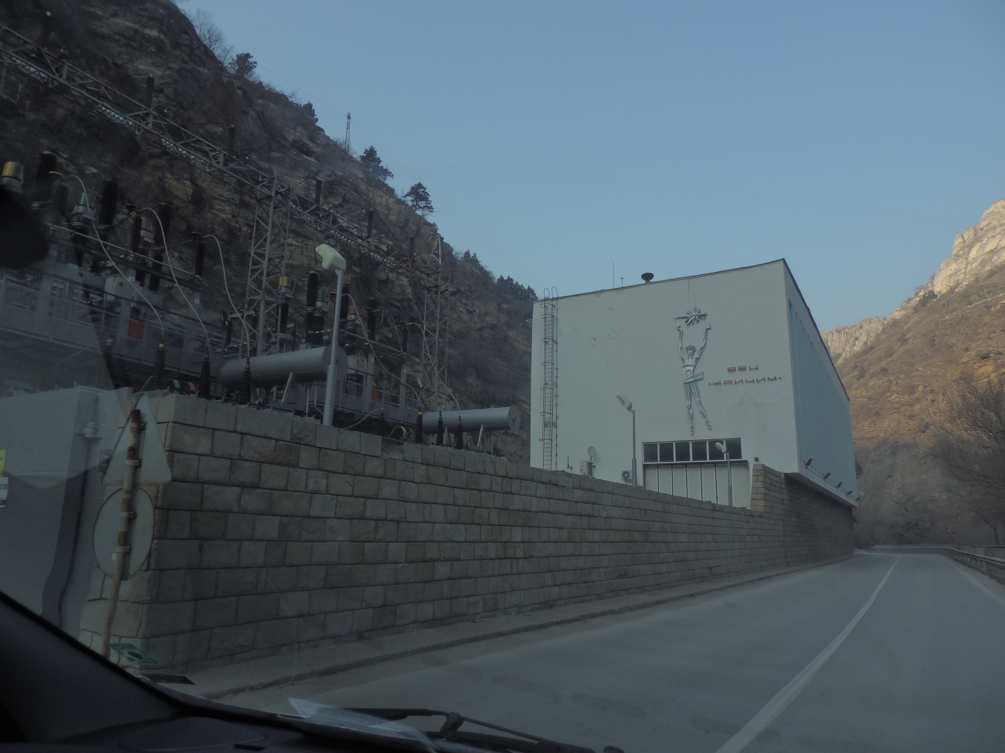 Hydroelectric Powerplant Krichim